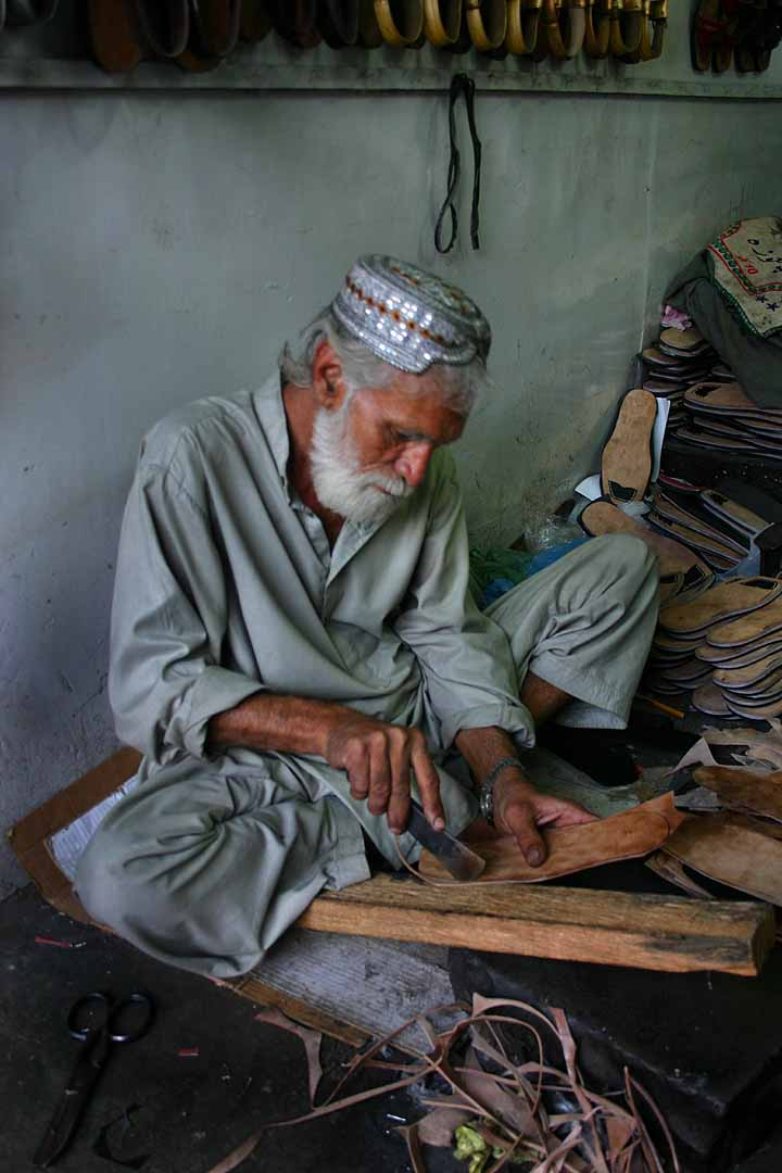 A cobbler or maker of shoes in the central market of Karachi-Pakistan. Canon EOS Digital Rebel / 18-55mm Canon lensPakistan: Karachi